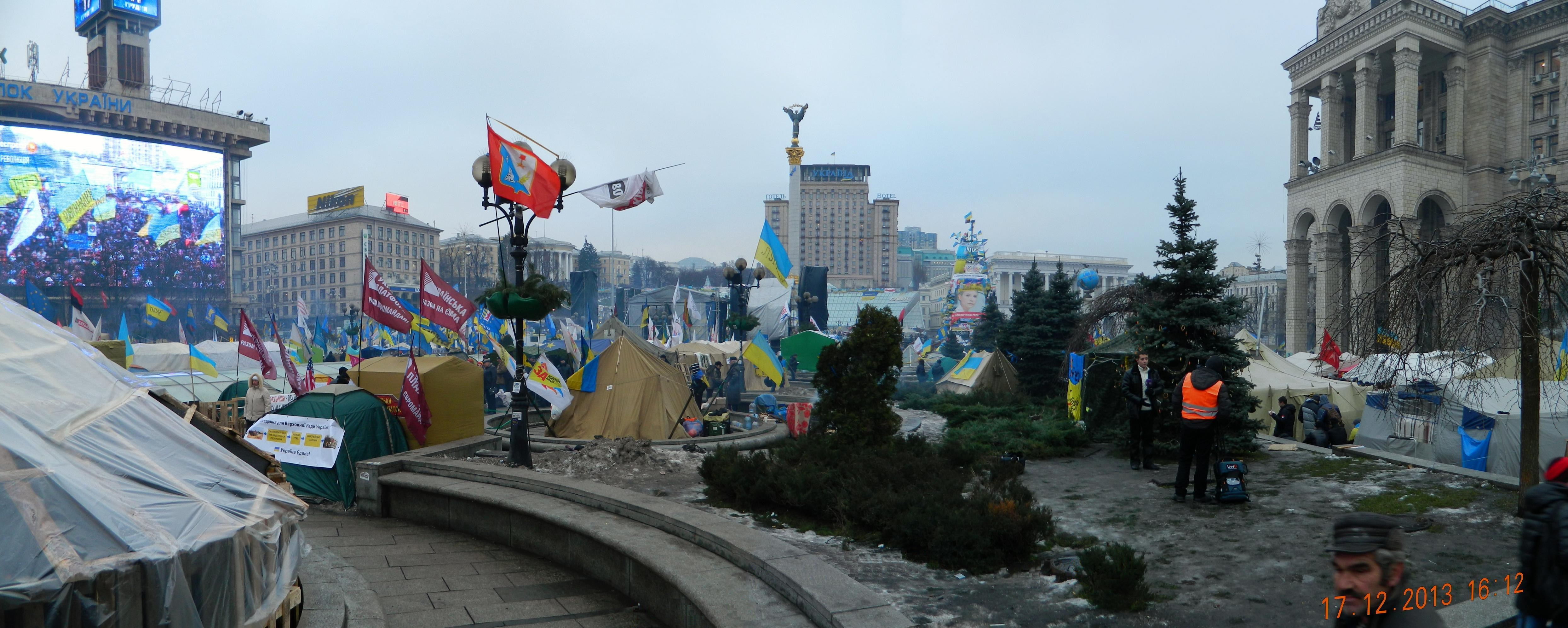 Panorama of Euromaidan. December 17, 2013